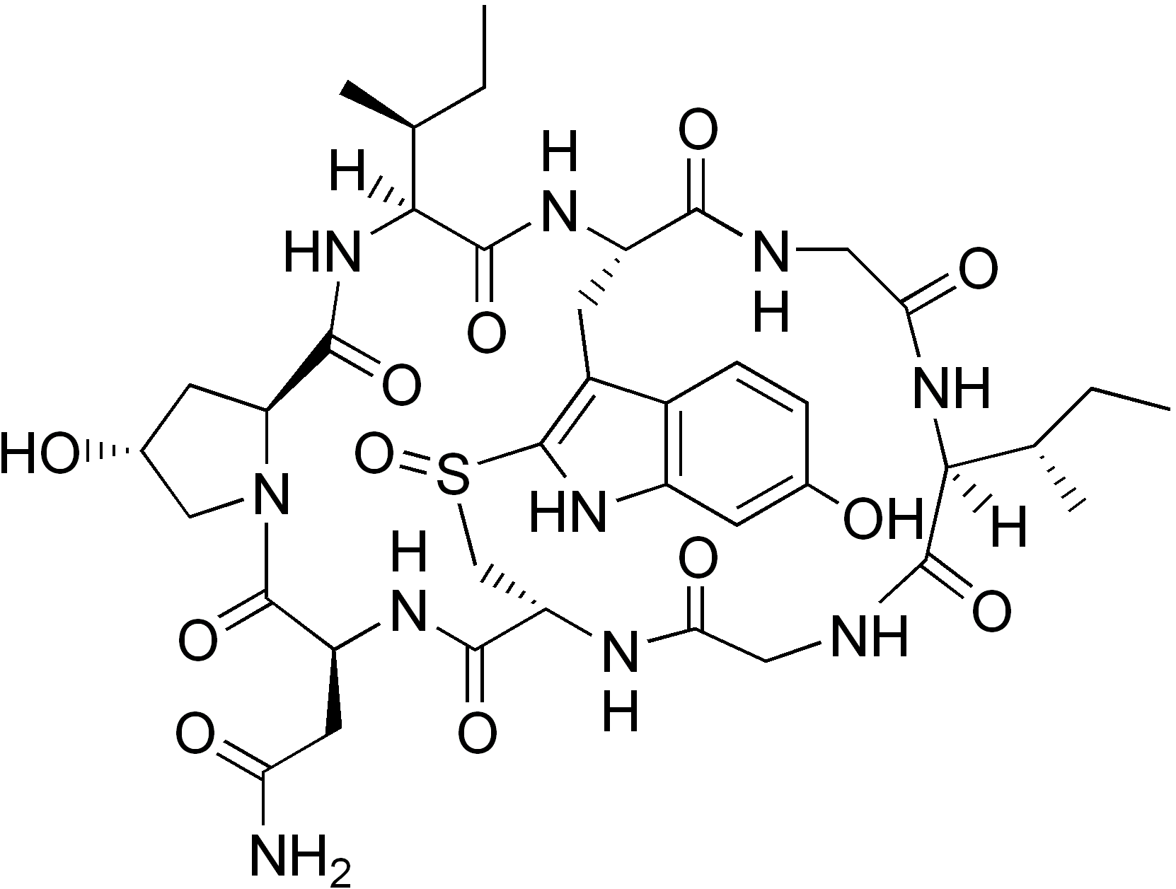 chemical structure of the amatoxin amanullin